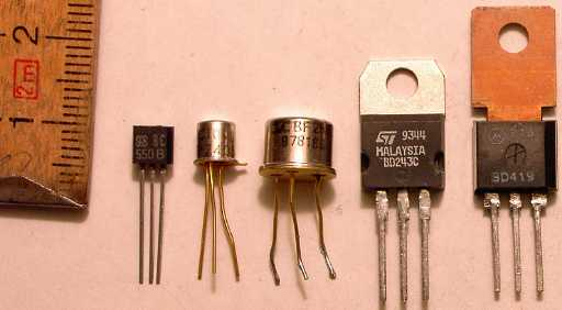 Bipolar transistors from about 1990's. From left; first two are low-power; the last three are able to transduce higher power with the right heat sinks.